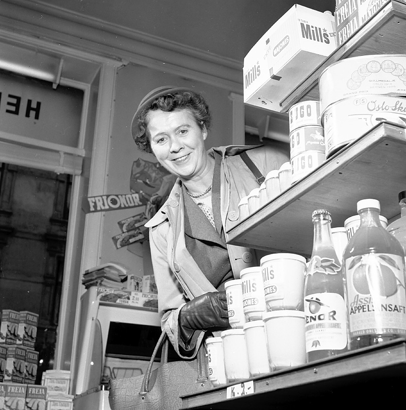 Beskrivelse: Fru Astrid Olesen bak selvbetjeningsdisken. Fotograf: Ragnvald Strand. Billedbladet NÅ Nr. 22, 1954. Arkivreferanse: RIKSARKIVET- PA797_570. Tekst: "Det er publikum som skal øve "kontroll". Kritiske kjøpere fremmer konkurransen. En kjøperunde med prat om pris og utvalg. Fru Astrid Olesen titter frem bak selvbetjeningsdisken. Hun fant alltid det hun ville ha, sa hun". Tekst Kjell Lynau. Description: Mrs Astrid Olesen behind the self-service counter Photographer: Ragnvald Strand Billedbladet NÅ No 22, 1954. Archival reference: PA797_570. Text: "It is the public that shall perform ”control”. Critical consumers improve the competition. A shopping trip with conversations about price and assortment. Mrs Astrid Olesen peeps out from behind the self-service counter. She always found what she wanted, she said". Text Kjell Lynau.